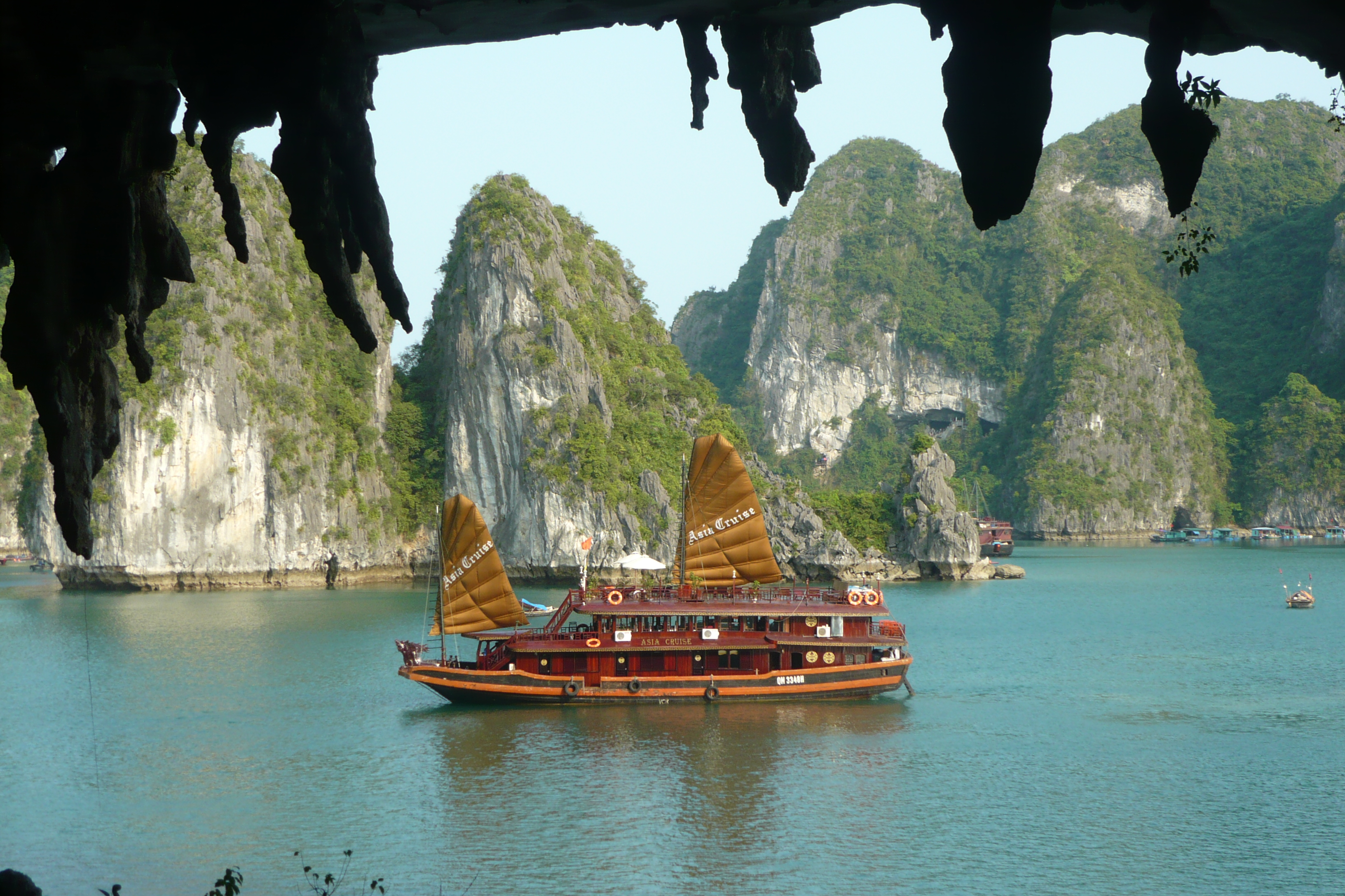 Halong bay picture, Boats in Halong bay, Deluxe Asia Cruise In Halong bay, Deluxe Junk in Halong bay